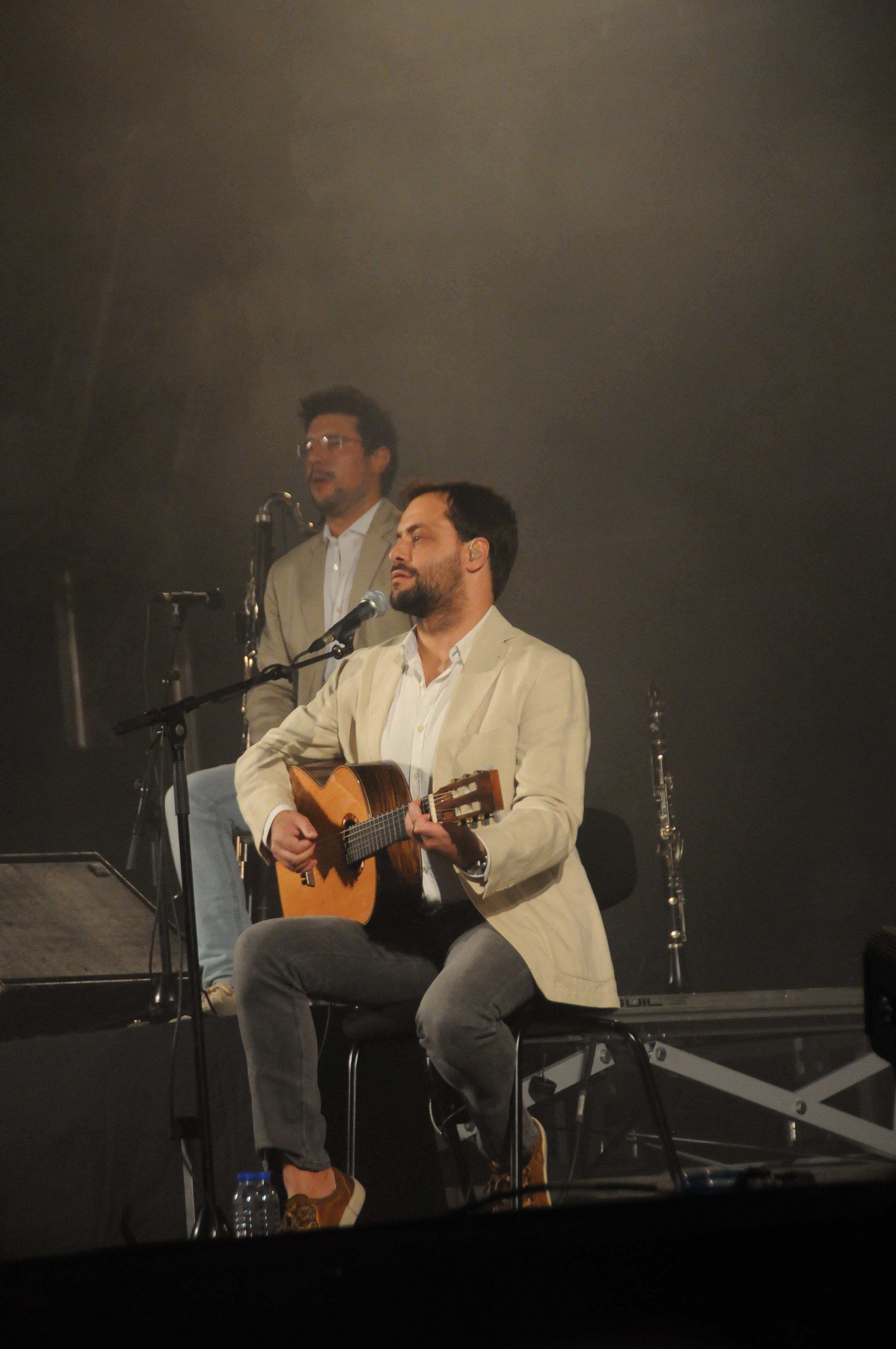 António Zambujo performing at Nuit Blanche Braga 2015.